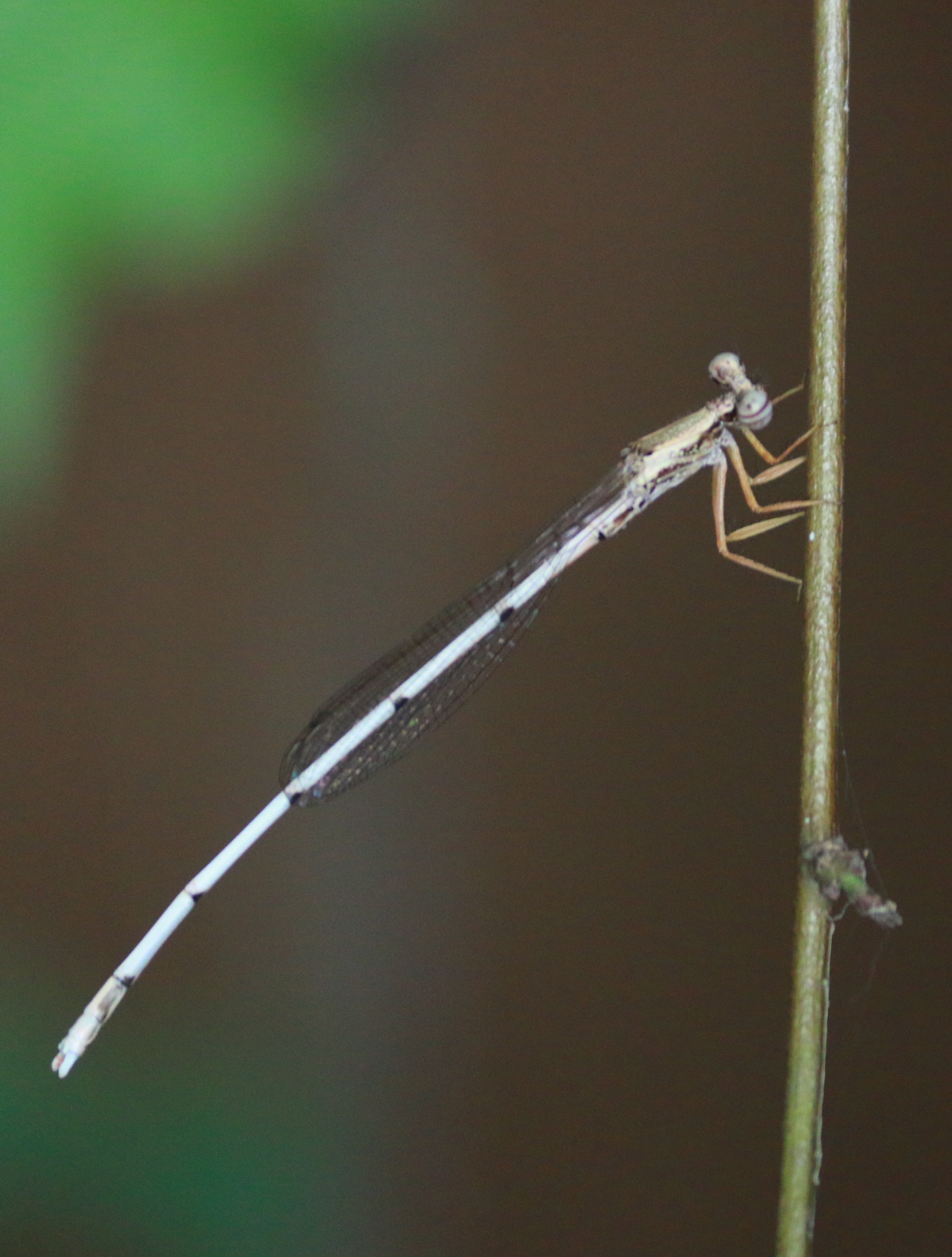 Copera marginipes juvenile male